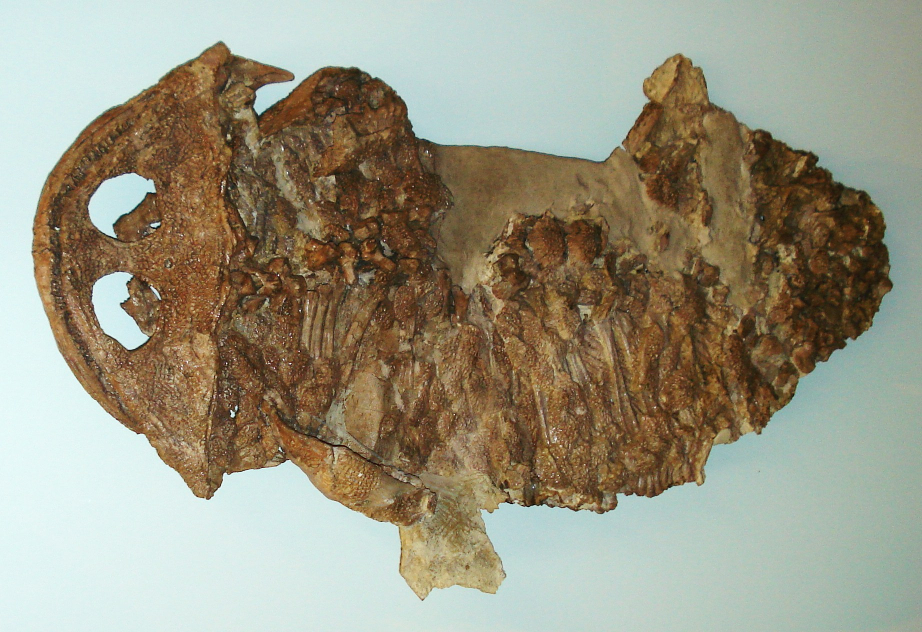 SMNS 83866, a skeleton of Gerrothorax pustuloglomeratus (HUENE 1922), a plagiosaurid temnospondyl, from the upper Ladinian Erfurt Formation of Kupferzell, Baden-Wurttemberg, SW Germany. The length of the specimen is almost 50 cm.[1] ↑ a b see fig. 2 (p. 21) in Hanna Hellrung (2003): Gerrothorax pustuloglomeratus, ein Temnospondyle (Amphibia) mit knöcherner Branchialkammer aus dem Unteren Keuper von Kupferzell (Süddeutschland). Stuttgarter Beiträge zur Naturkunde, Serie B (Geologie und Paläontologie). No. 330 (PDF).